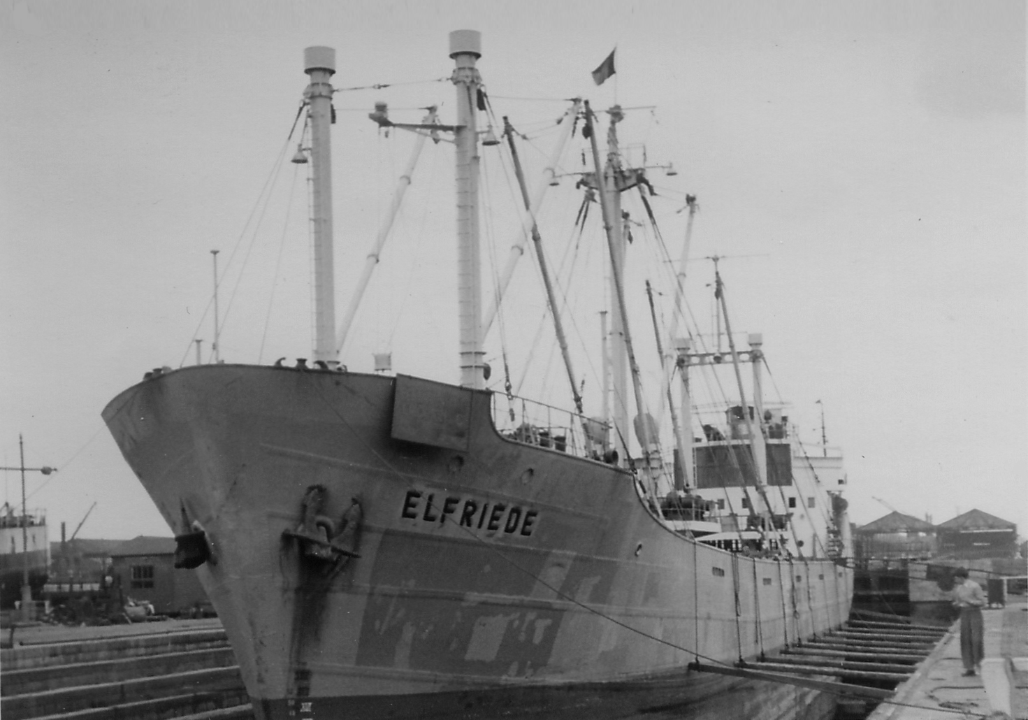 Motor vessel Elfriede in Antwerp in the shipyard in dry dock in summer 1956